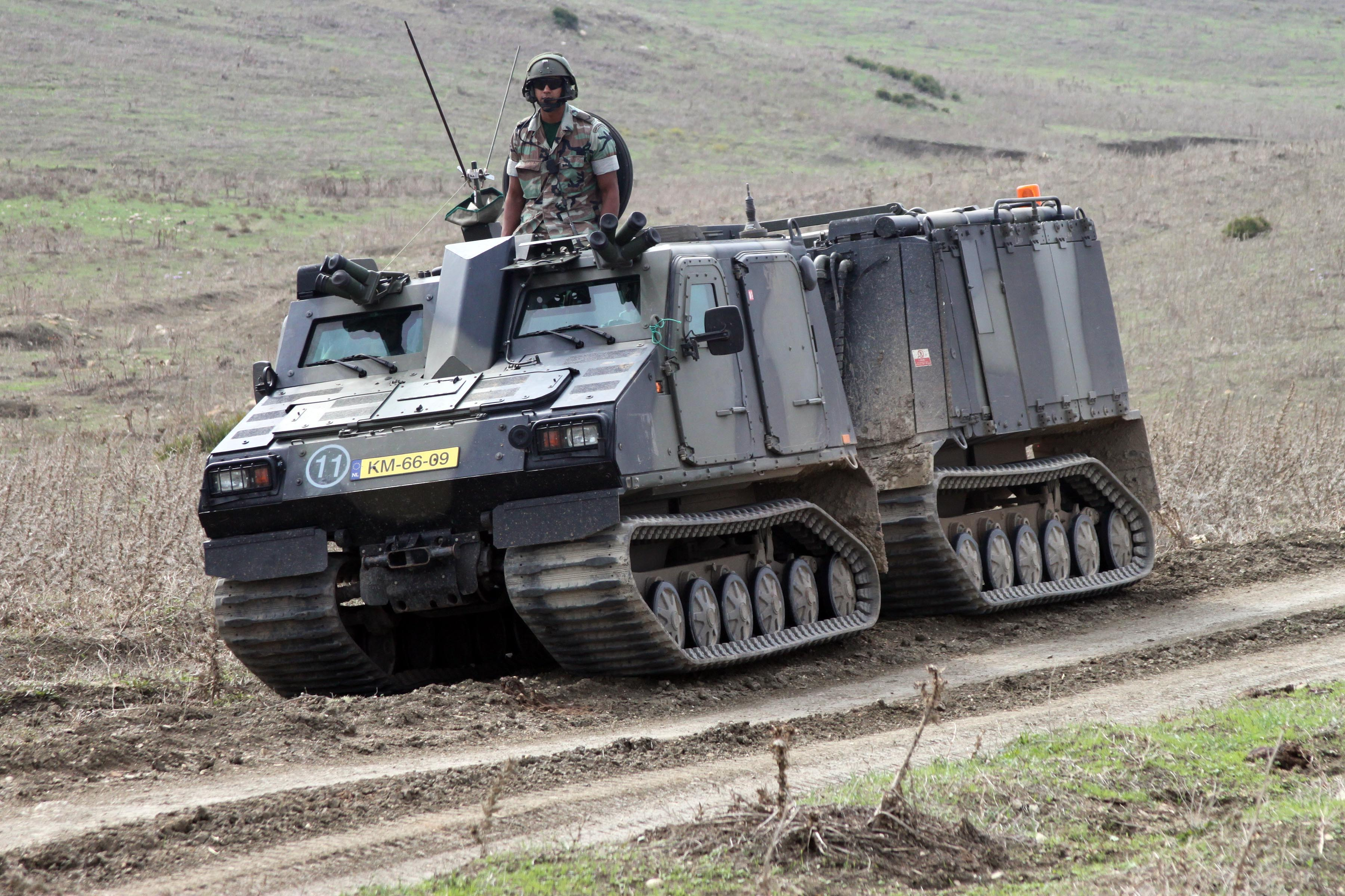 151023-USAN-2994B-012 – SIERRA DEL RETIN, Spain – Dutch Marines ashore during Exercise TRIDENT JUNCTURE 2015. The Royal Netherlands Navy is being certified to lead the amphibious forces in the 2016 NATO Response Force. Ships in Task Group 445.03 include the landing platform dock (LPD) HNLMSJOHAN DE WITT, the frigate HNLMS TROMP, the hydrographic survey vessel HNLMS SNELLIUS, and Dutch Marines. Credit: U.S. Navy photo by Commander David Benham (Released)